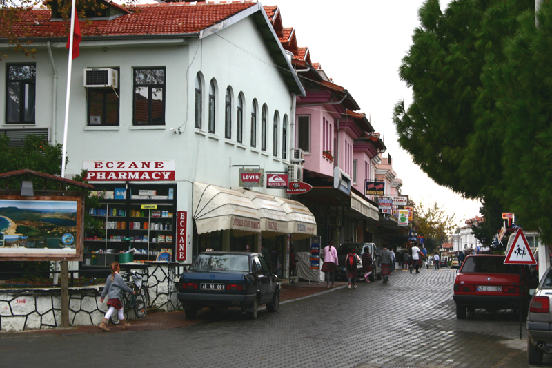 The town of Dalyan, Turkey